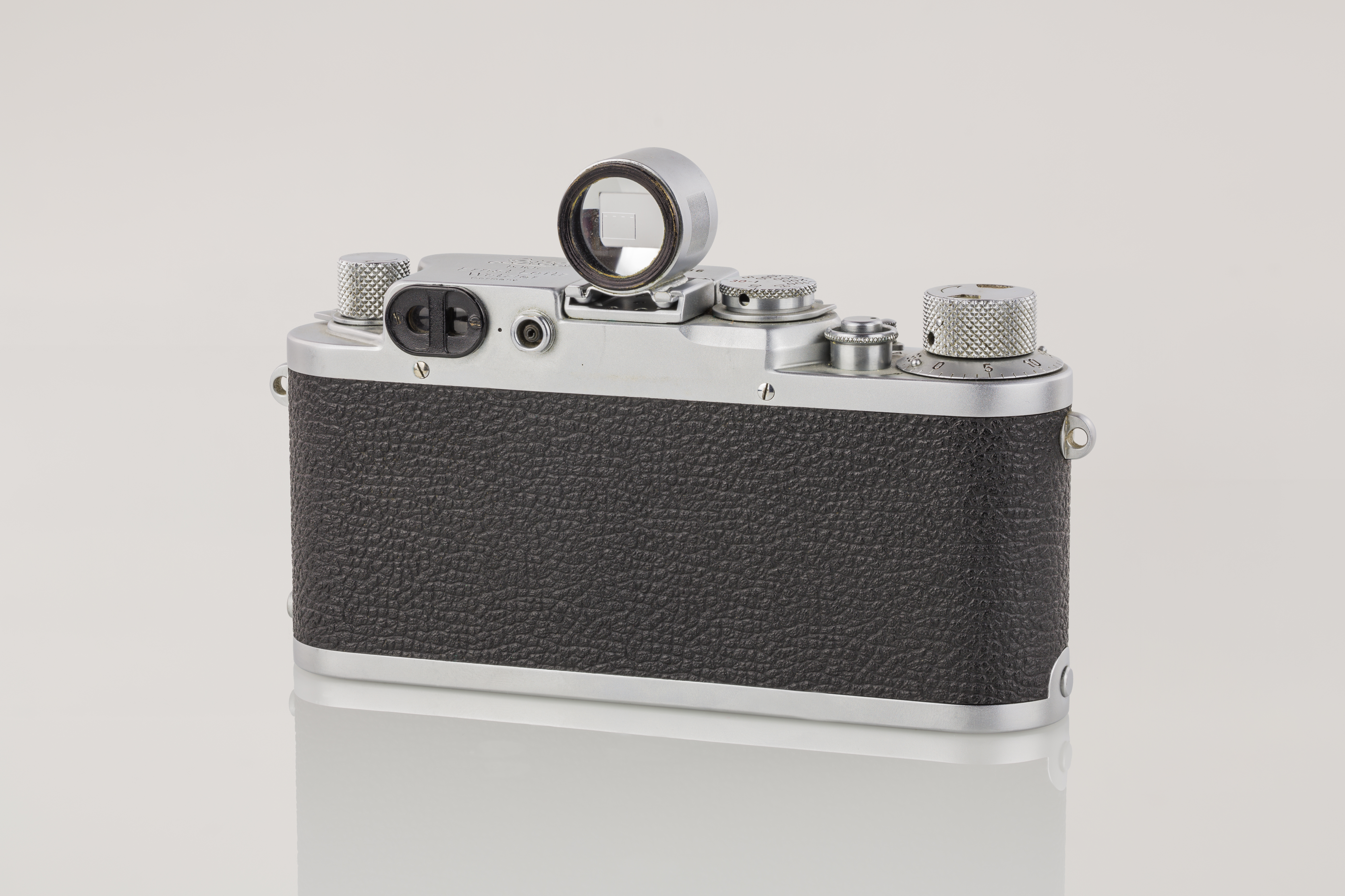 Leica IIIf with flash synchronisation - Sn. 580566 - M39, 1951-52 - Mount: M39